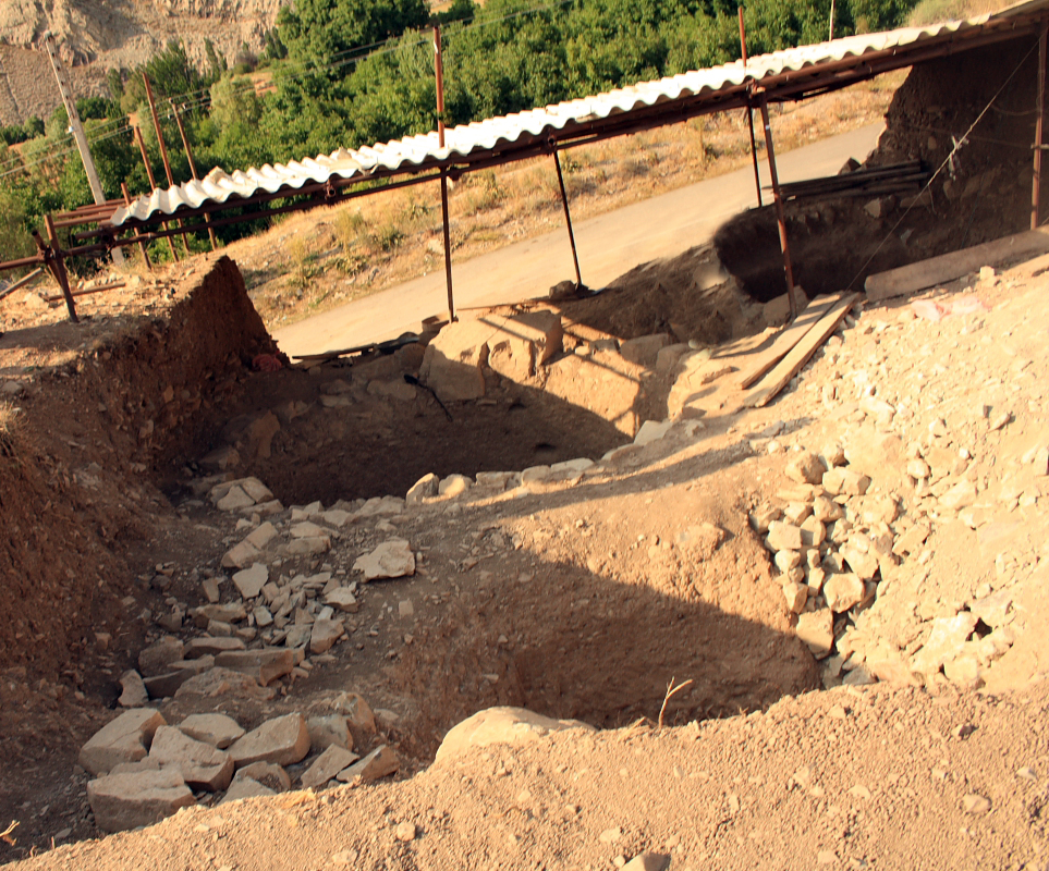 gilavan